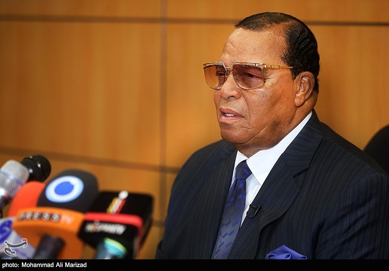 Full version of File:Louis Farrakhan.jpg, which is cropped from this image